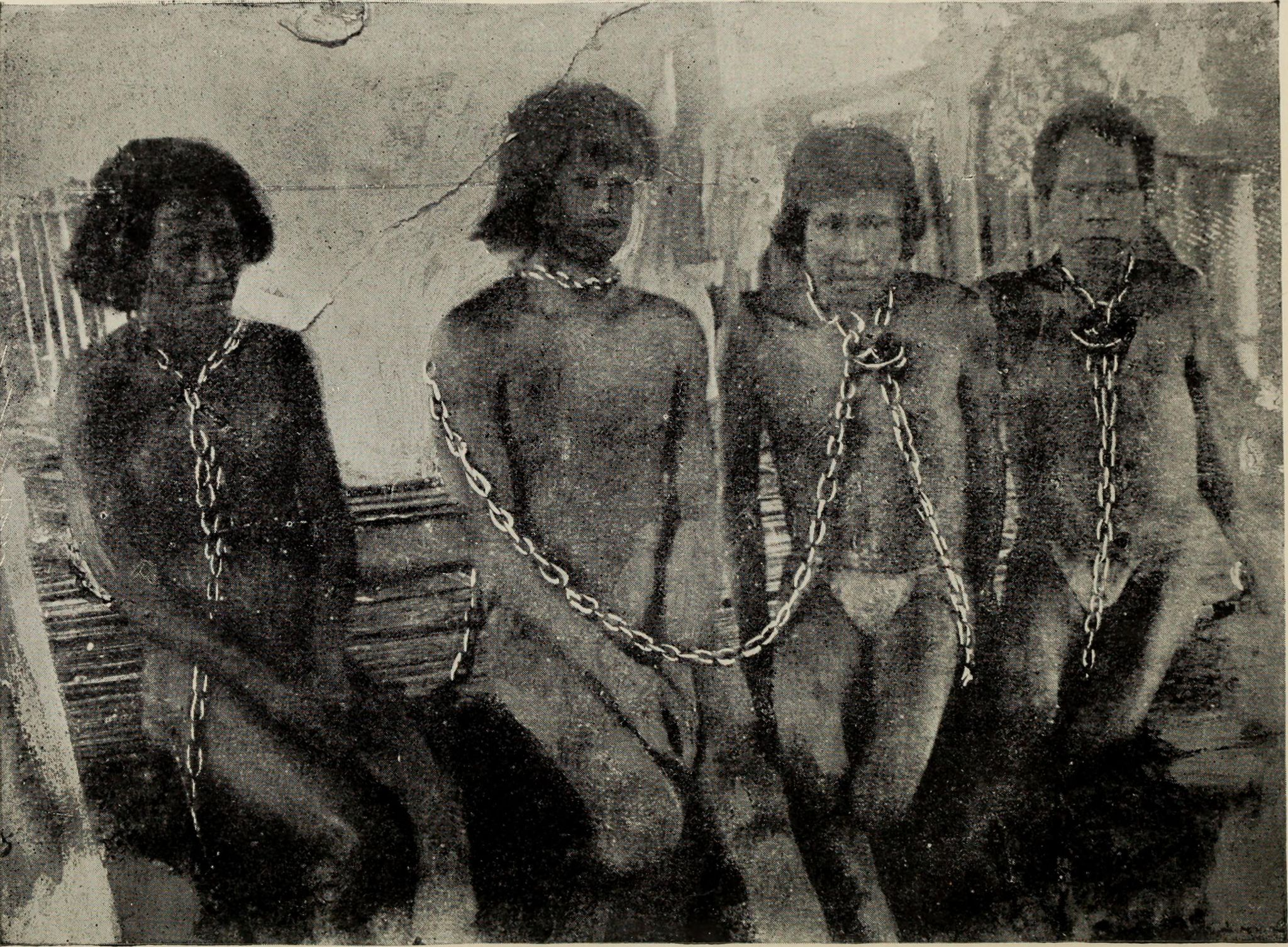 A photo of enslaved Amazon Indians during the rubber boom of the early 1900's. This photo is found in the 1912 book "The Putumayo, the devil's paradise; travels in the Peruvian Amazon region and an account of the atrocities committed upon the Indians therein" and is by Walter Hardenberg.